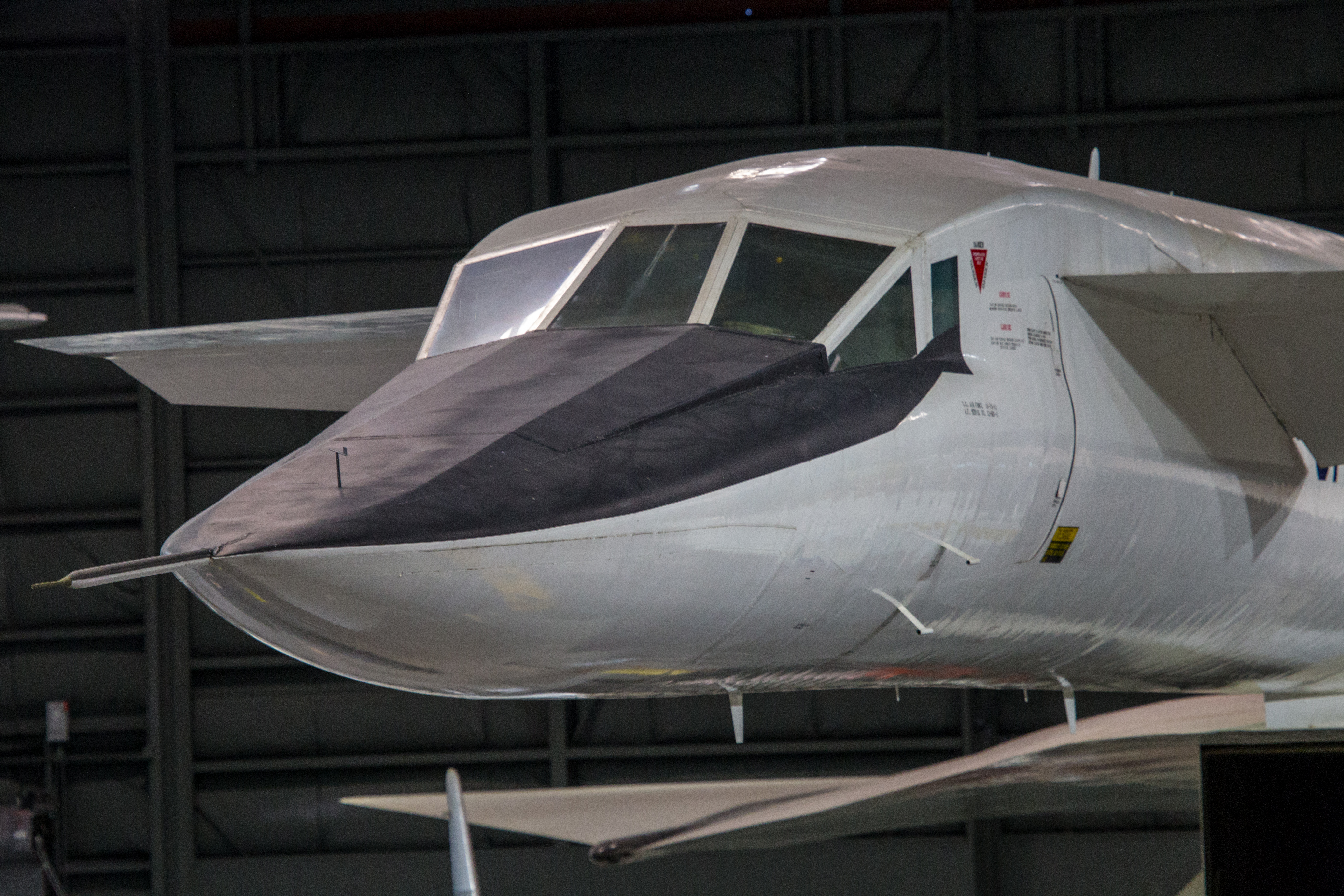 North American Aviation XB-70 AV-1, 62-0001